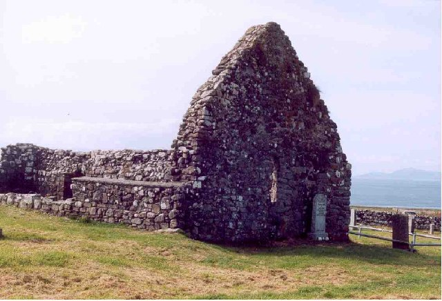 Ruined church, Trumpan, Skye. This church was deliberately burned in May 1578 by a raiding party of MacDonalds, during their long clan feud with the MacLeods.